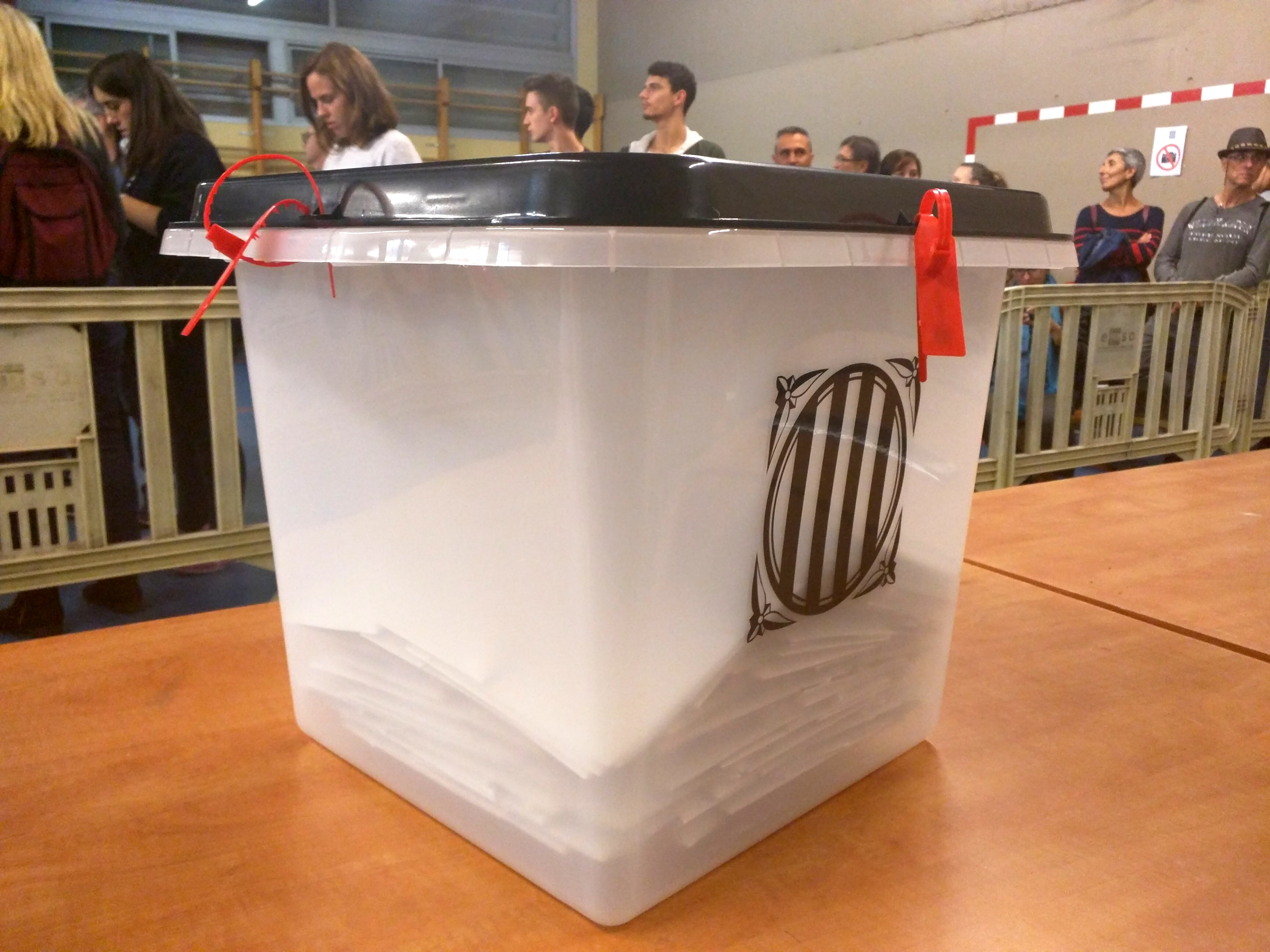 Ballot box used in Catalan independence referendum, 2017 Wikipedia: Catalan independence referendum, 2017 See also category: Catalan independence referendum, 2017.